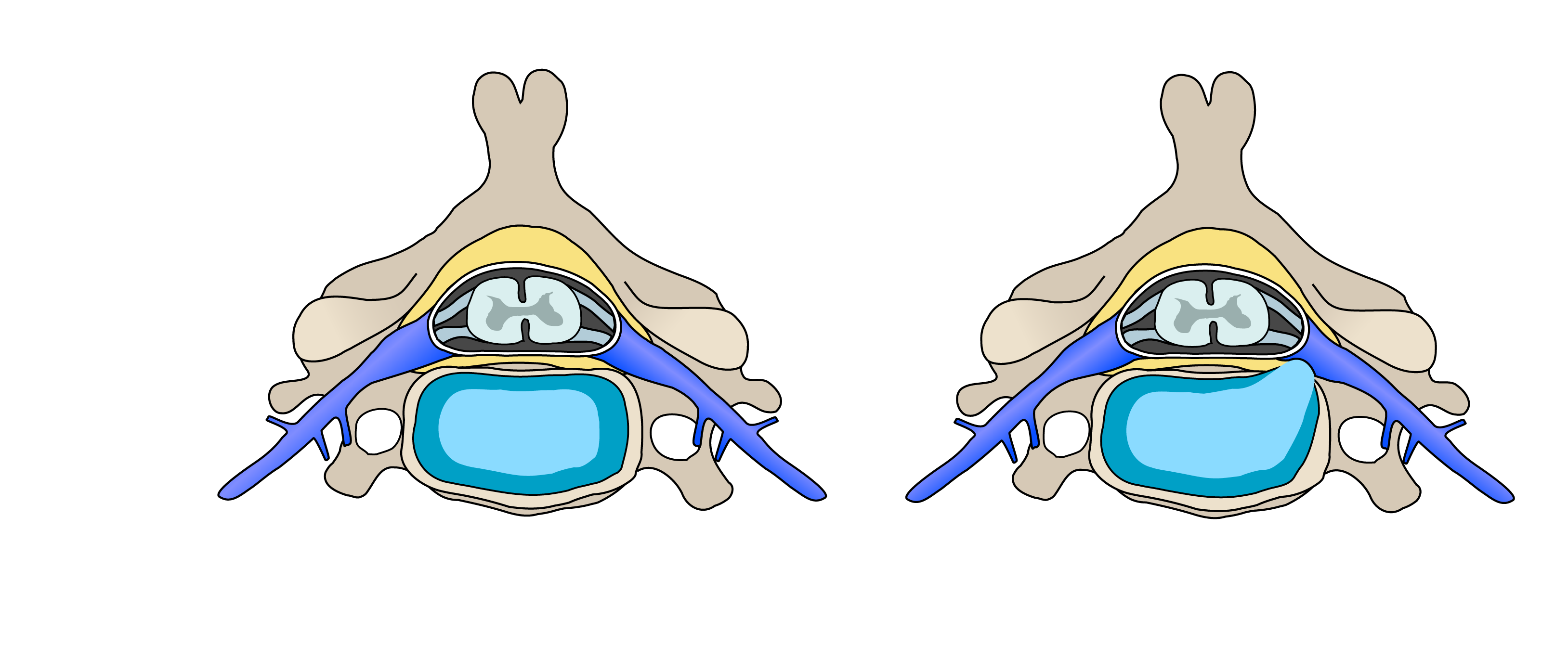 unannotated diagram of preconditions for Anterior cervical discectomy and fusion